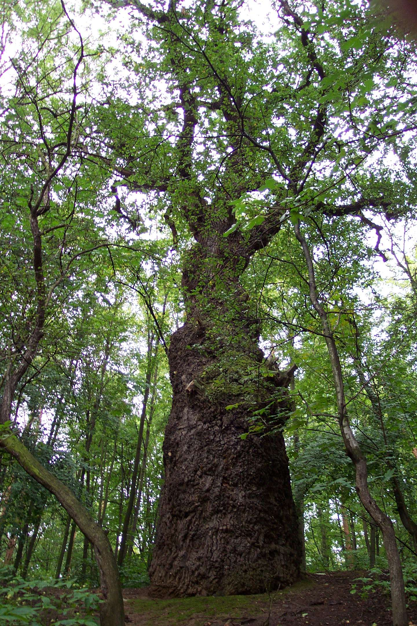 The Cibulka park in western part of Prague